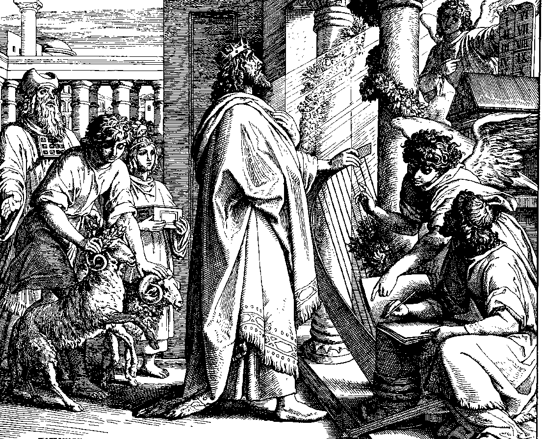 Woodcut for "Die Bibel in Bildern", 1860.